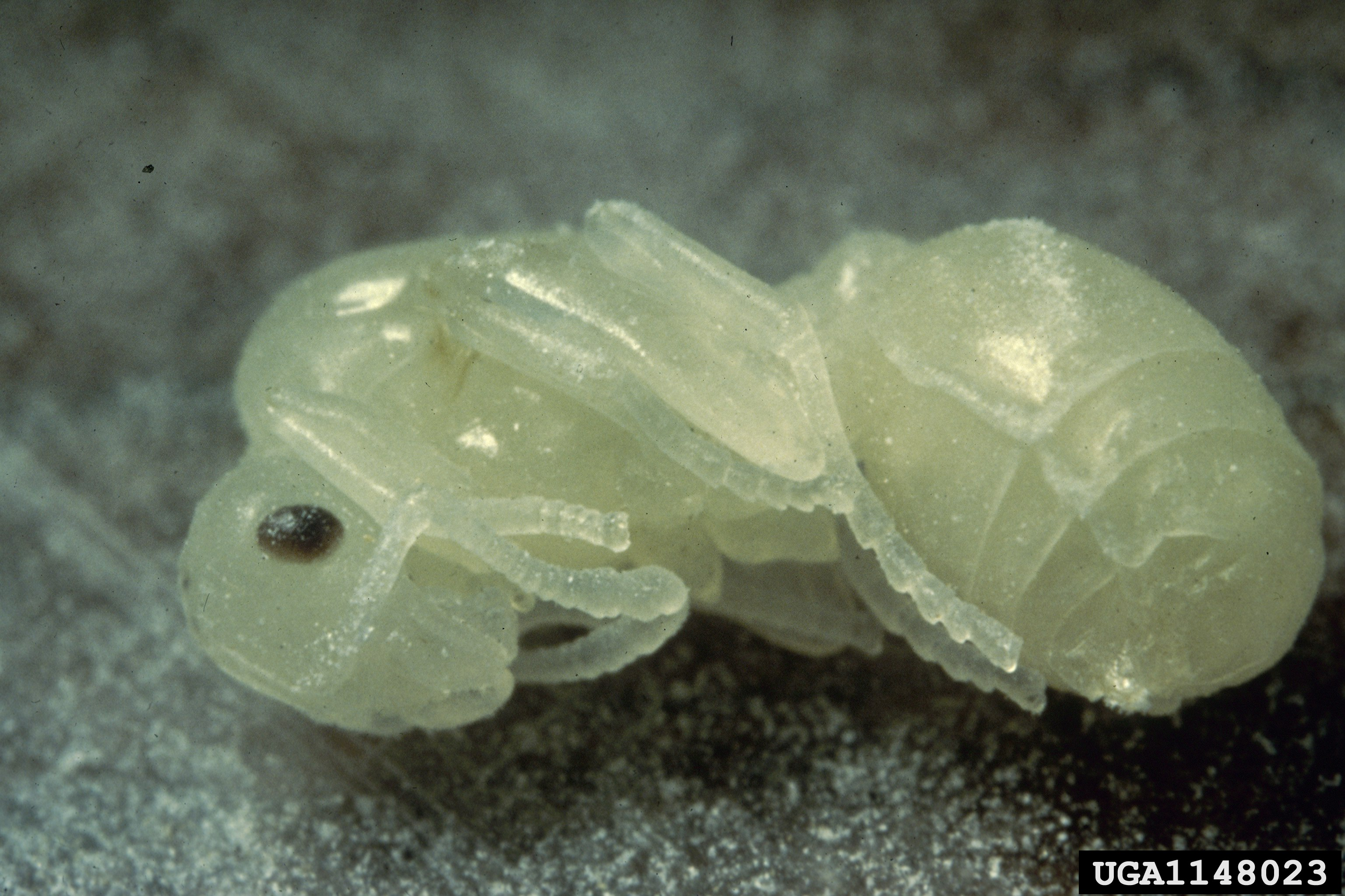 Pupae of an S. invicta queen